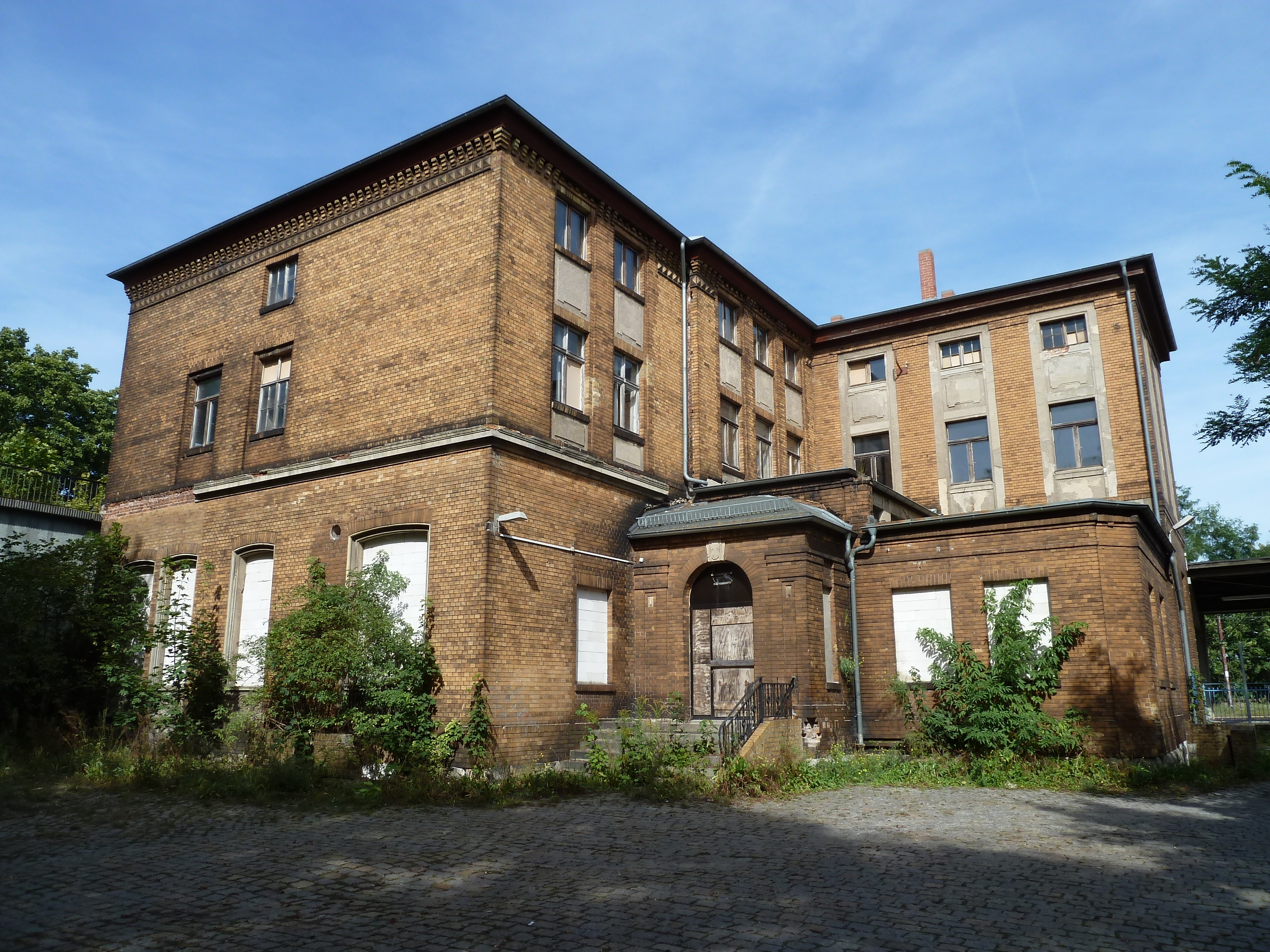 Güterglück train station, unused station building